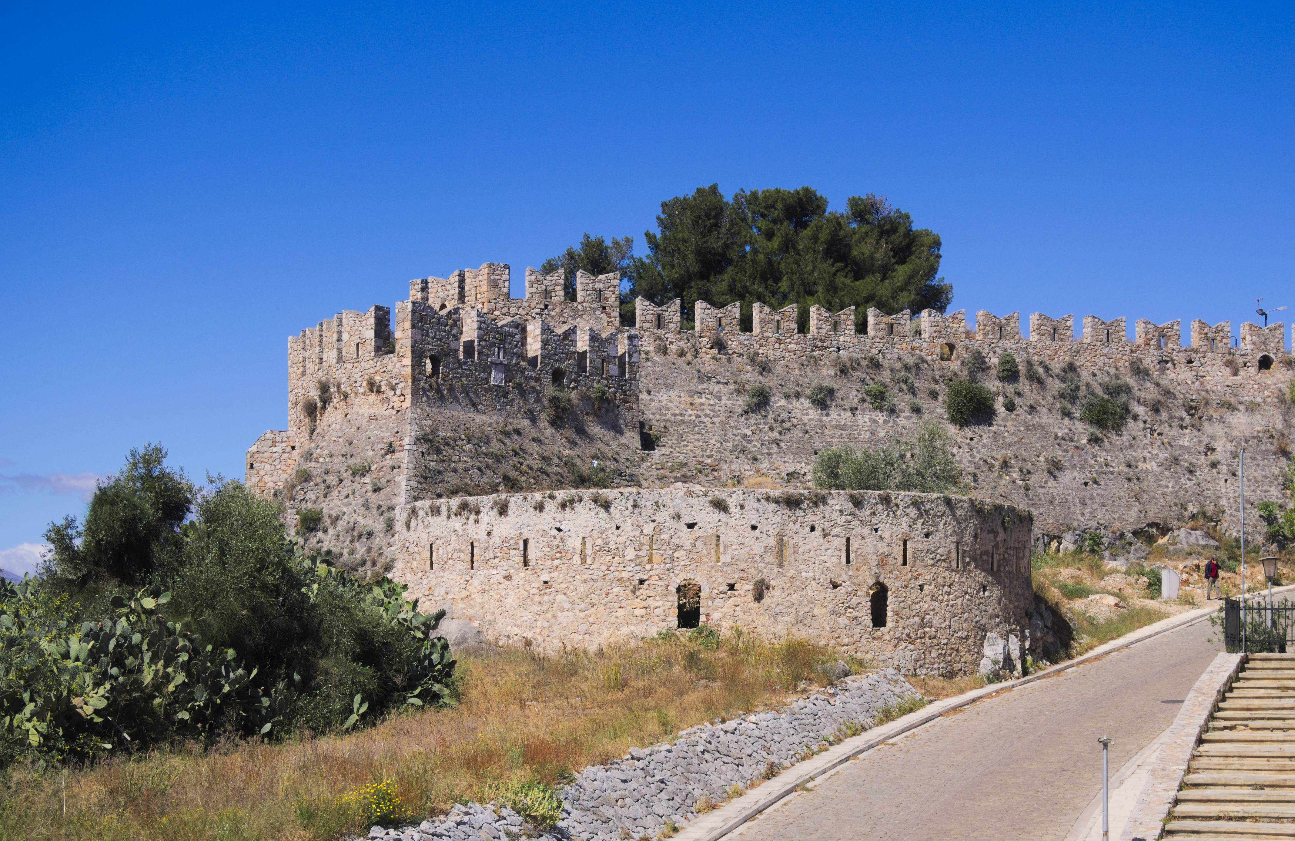 Traversa Gambello and Barbakane bastion, inside Acronafplia.